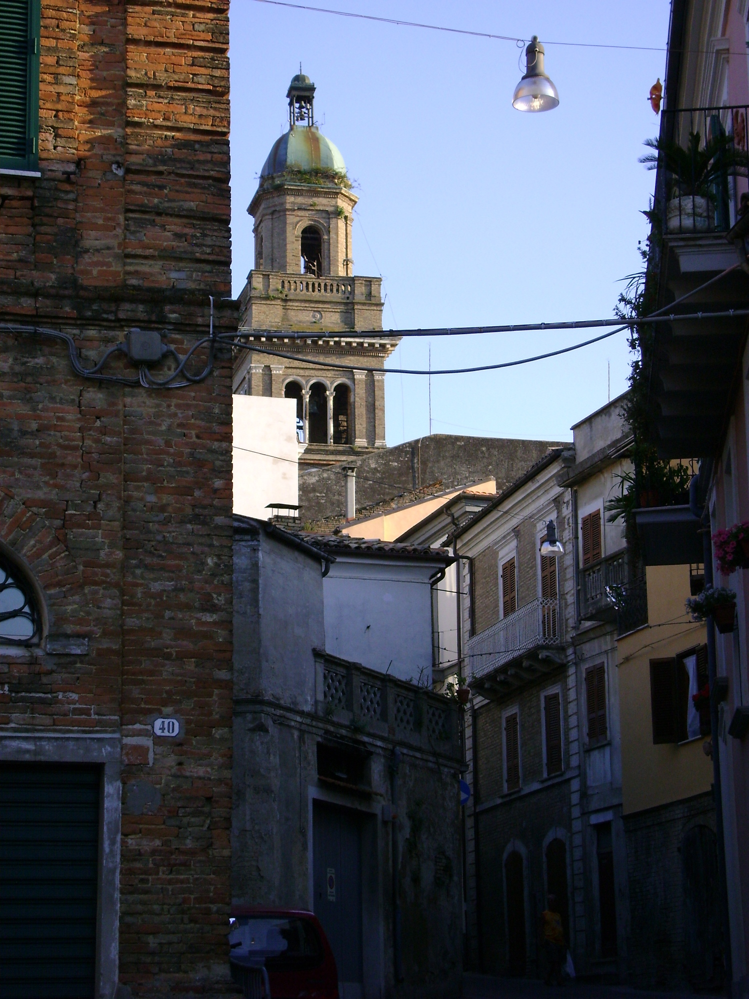 A view of the tower of Casalbordino, province of Chieti, Abruzzo